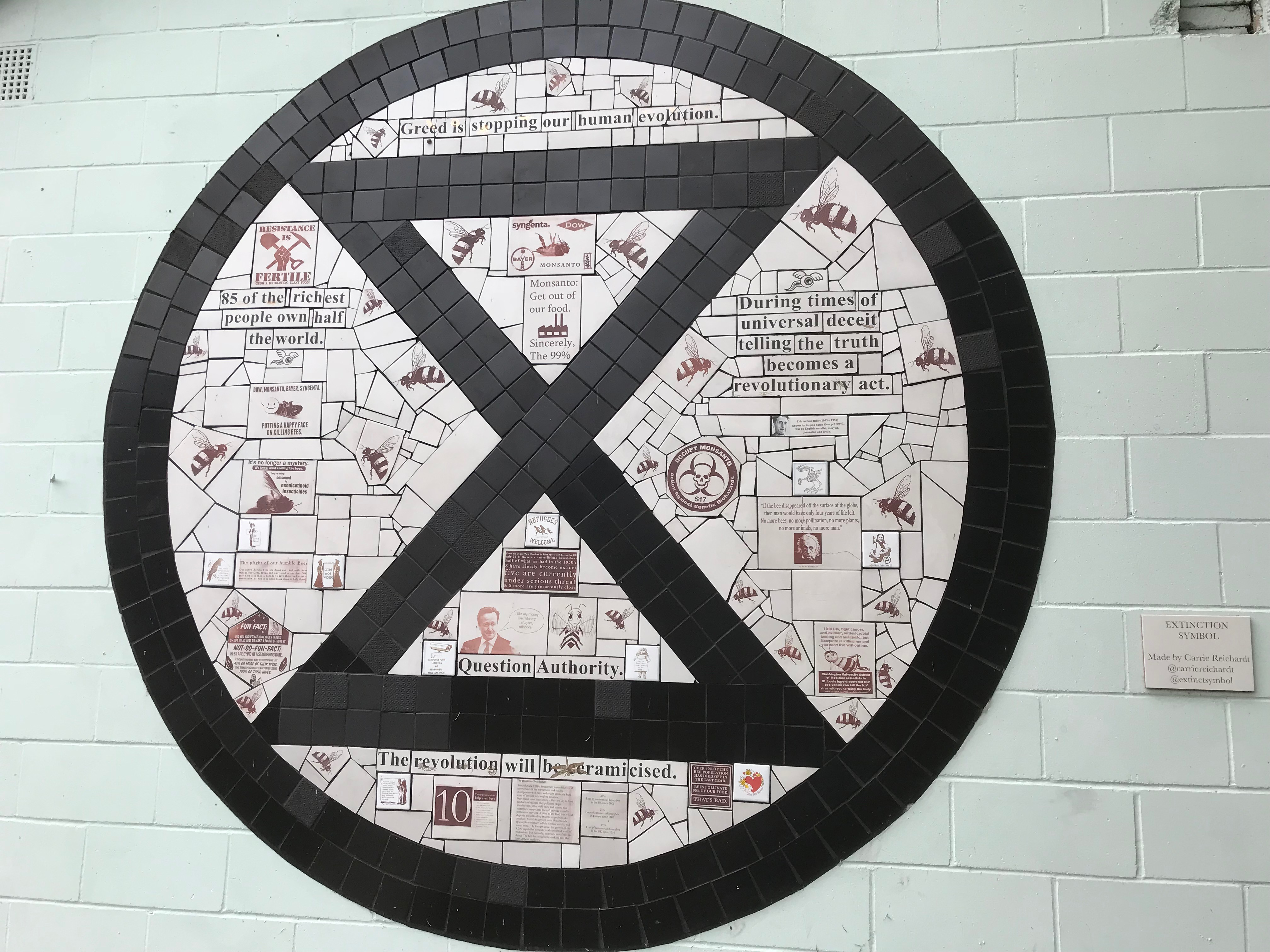 Picture of mosaic artwork by UK artist Carrie Reichardt called "Bees", depicting the Extinction Symbol, and displayed at Endangered 13 exhibition in London